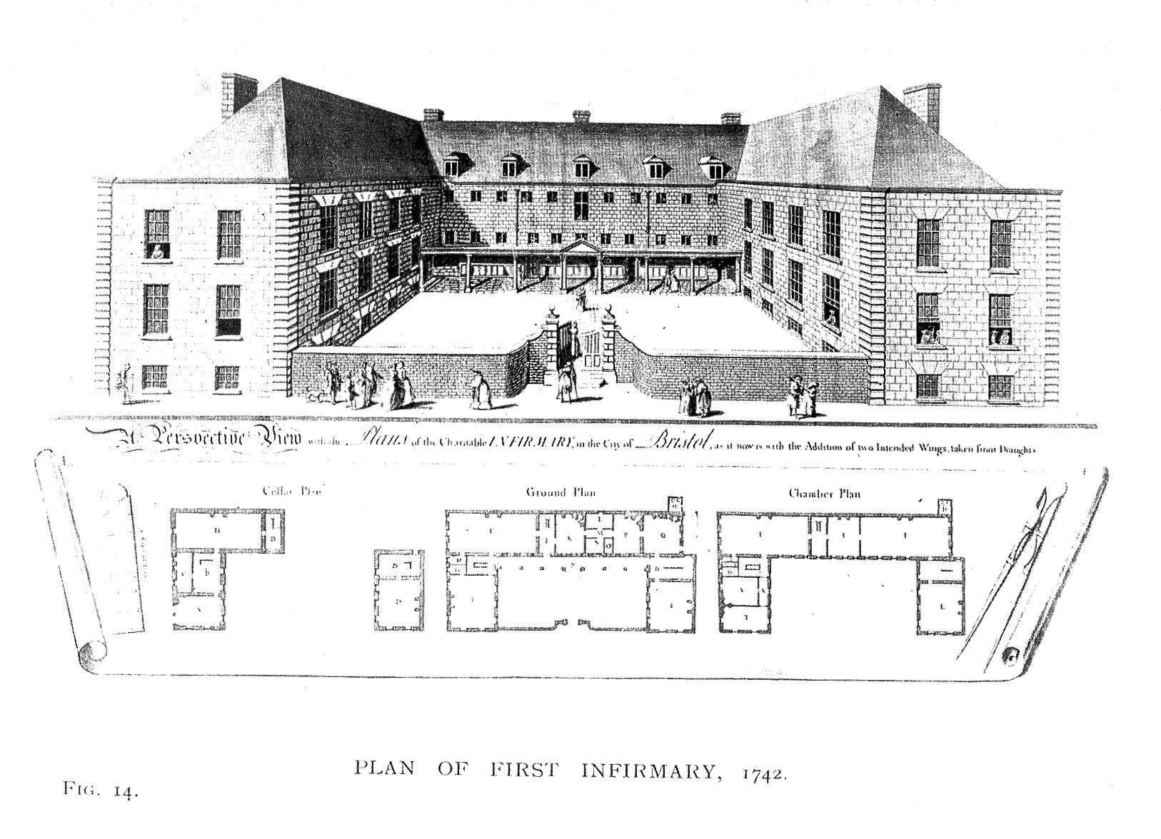 Bristol Royal Infirmary. Plan of the First Infirmary, 1742. General Collections Keywords: Institutions